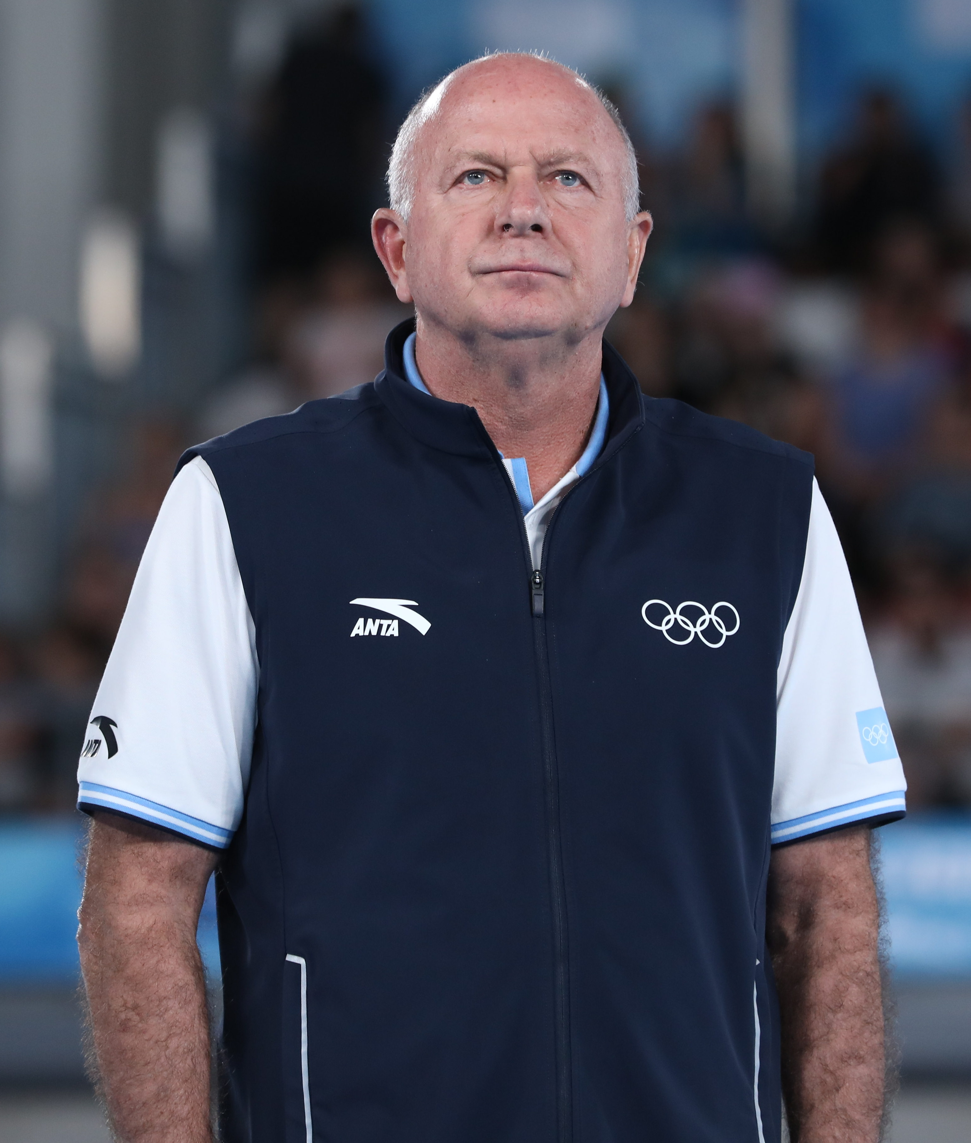 Boys' Artistic Gymnastics, Parallel bars: Victory ceremony